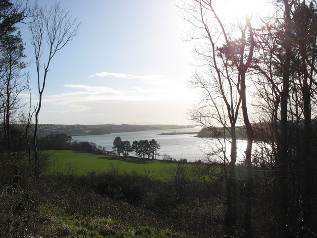 Afon Menai and Moel y Don from Coed Twr